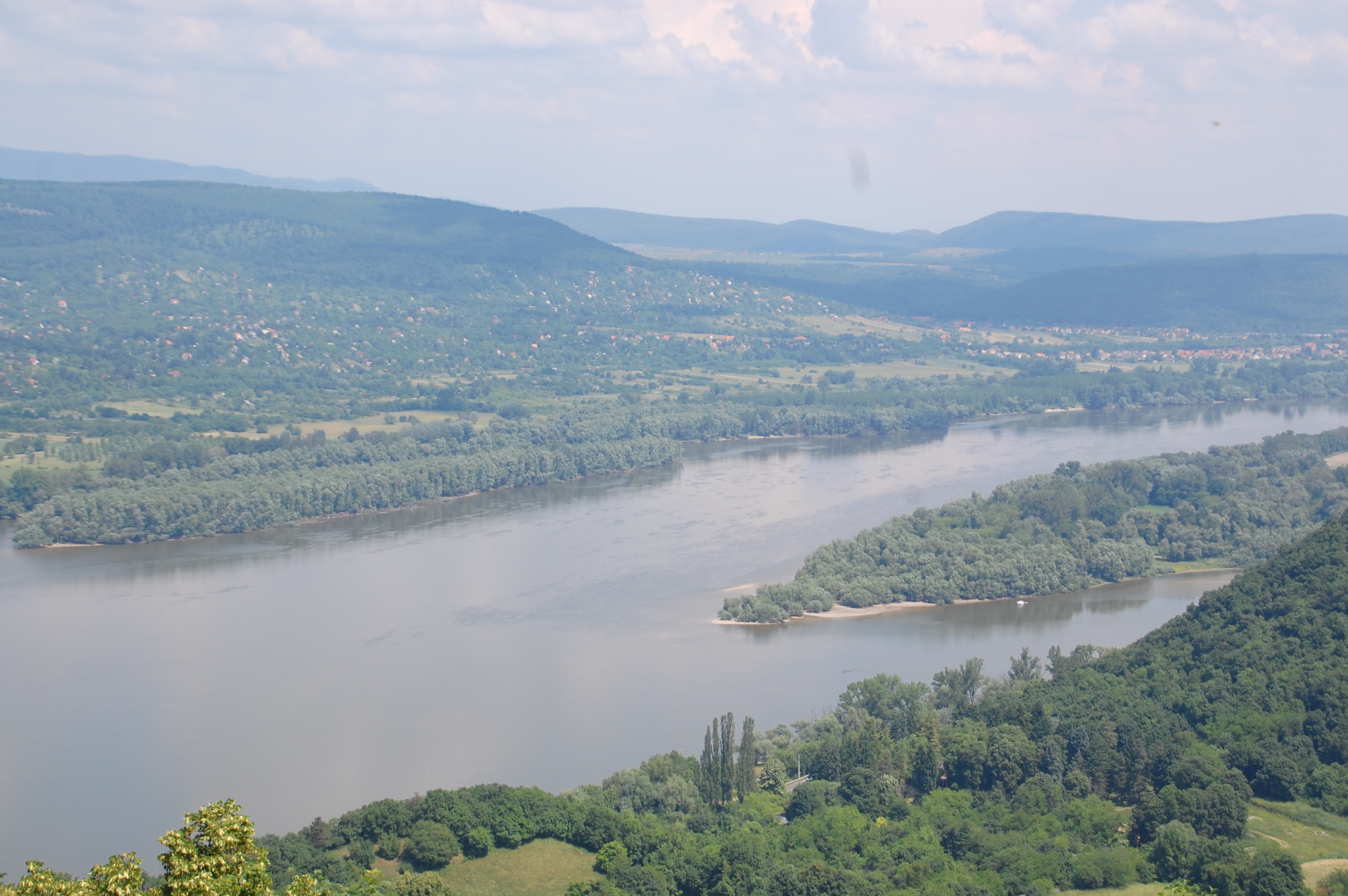 Meetup of the biologists of the German Wikipedia (de), 2011 in Dunabogdány, Hungary; Visegrád